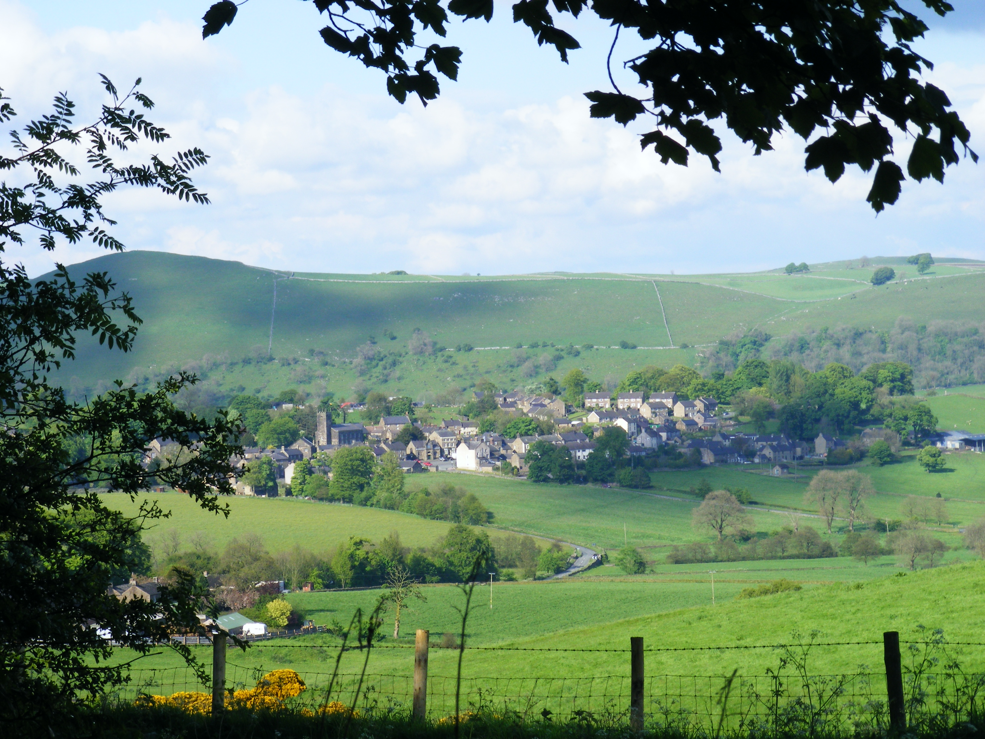 General view of Longnor (Staffordshire) village from the west, showing Parish Church and Market as main features.